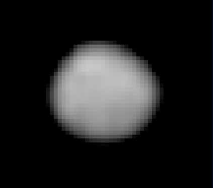 A black-and-white image of 2 Pallas taken with the Hubble Telescope in 2007 with UV filter.